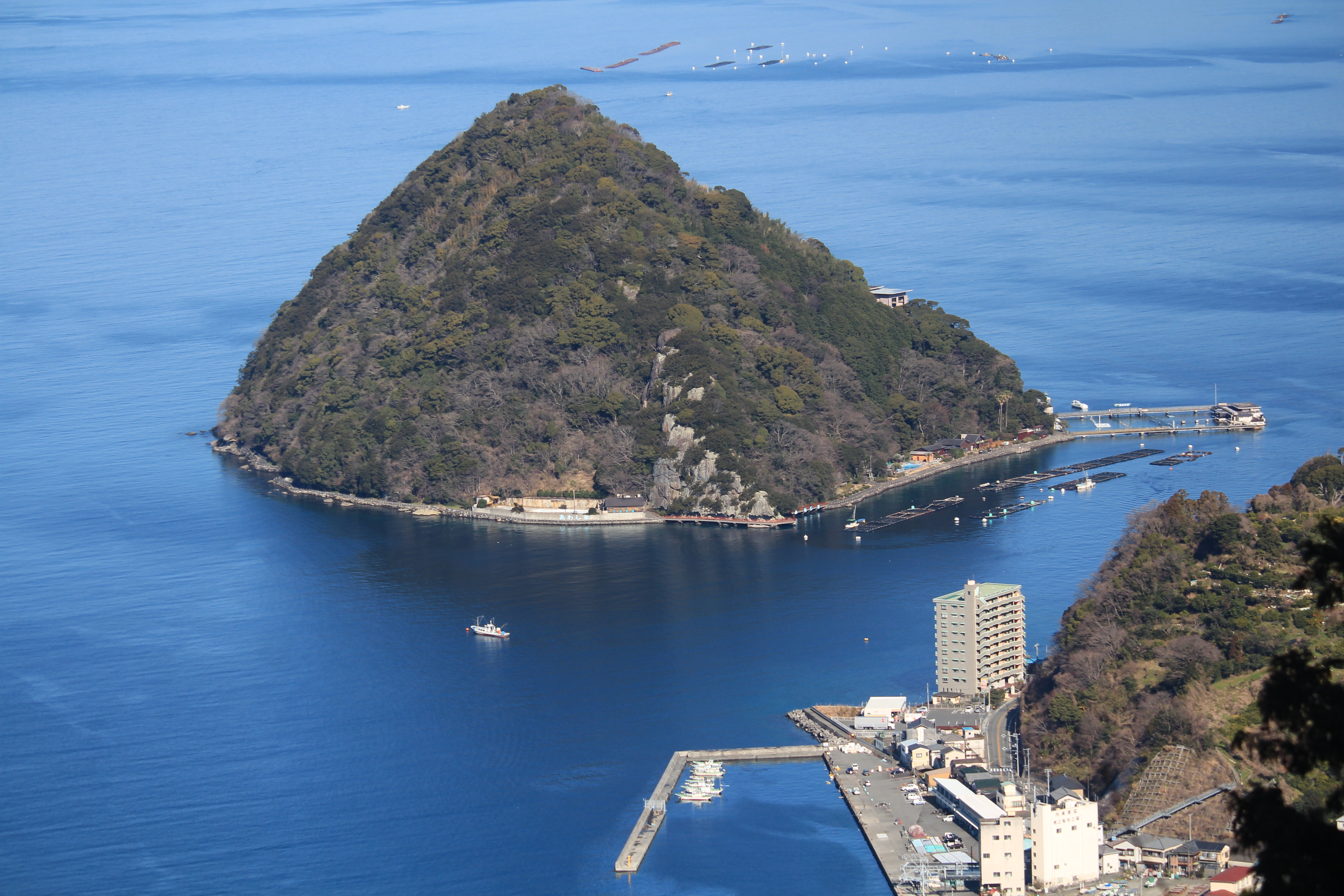 Awa Island seen from Mount Hottanjō, in Numazu, Shizuoka prefecture, Japan.